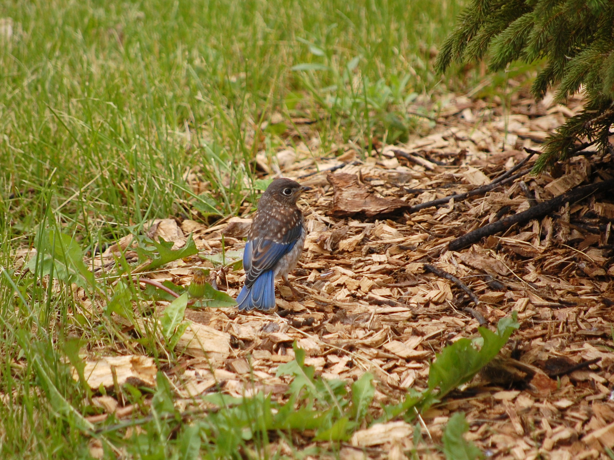 Powderhorn Park, Minneapolis, MN